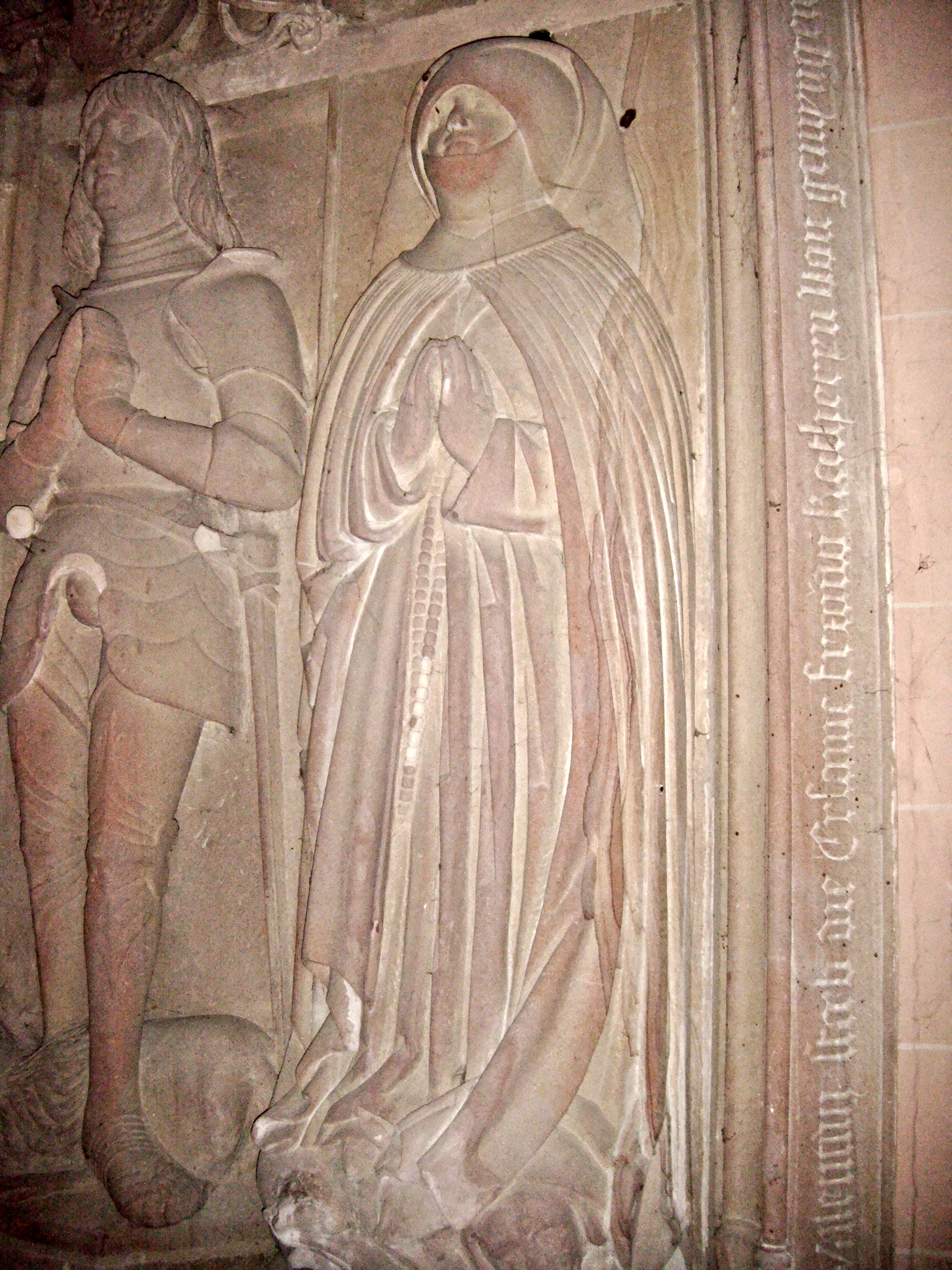 Katharina von Dalberg geb. von Gemmingen (+ 1517, Gattin des Friedrich von Dalberg) auf ihrem Epitaph in der Katharinenkirche Oppenheim